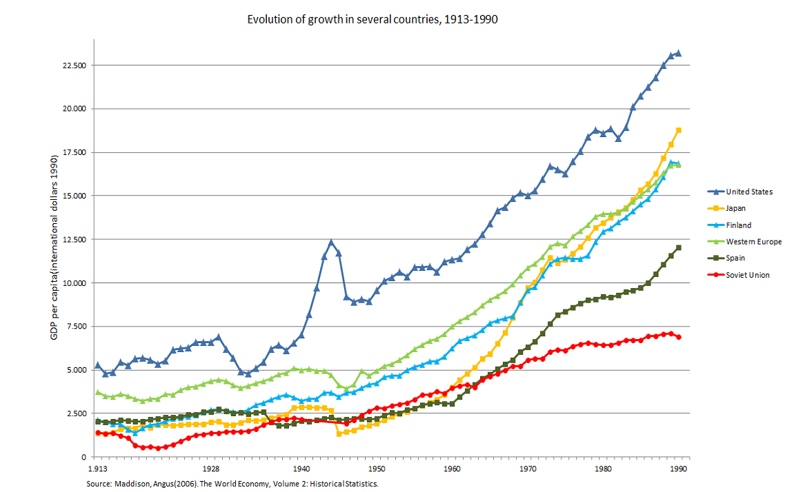 USSR GDP per capita